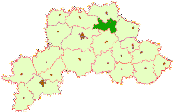 Mogilev Region map by Al Silonov